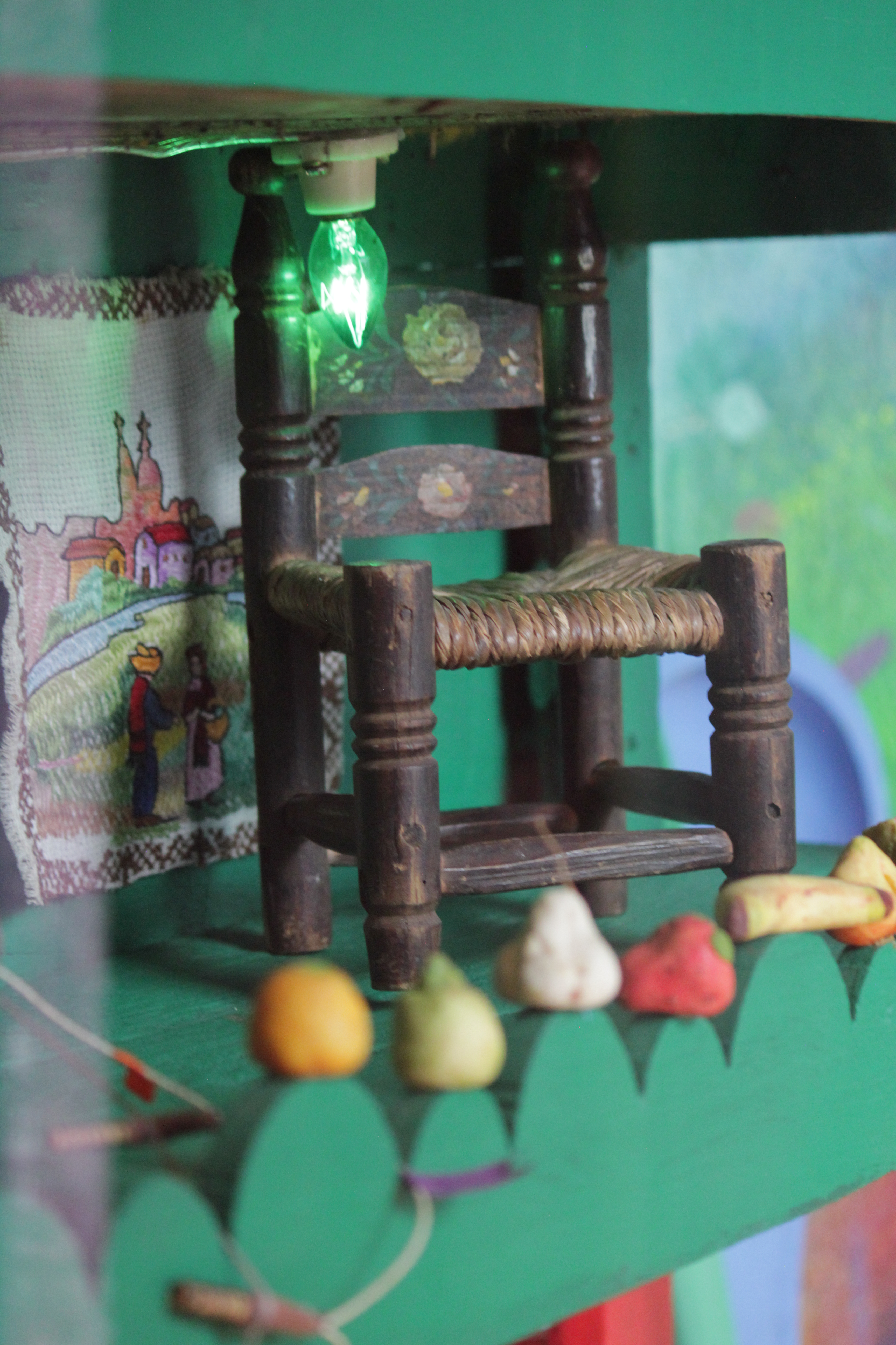 Miniature chair, located in The Museum "La Casa del Poeta Ramón López Velarde" in Colonia Roma, Mexico City.